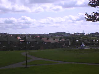 Burslem, Stoke-on-Trent, Staffordshire. Photograph taken whilst facing Vale Park.